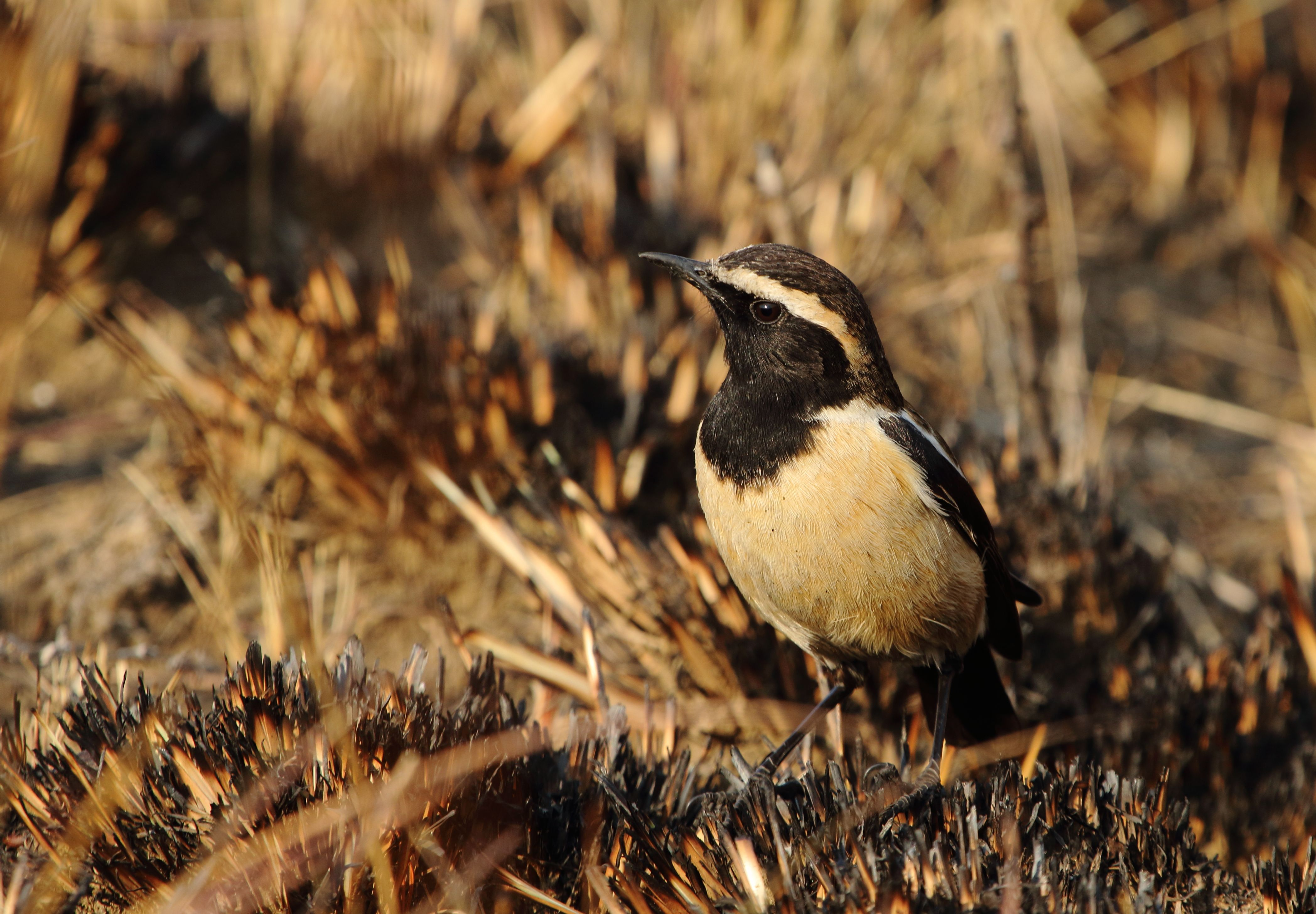 Male buff-streaked chat Campicoloides bifasciatus at Kamberg Rock Art Centre, KwaZulu-Natal Drakensberg.